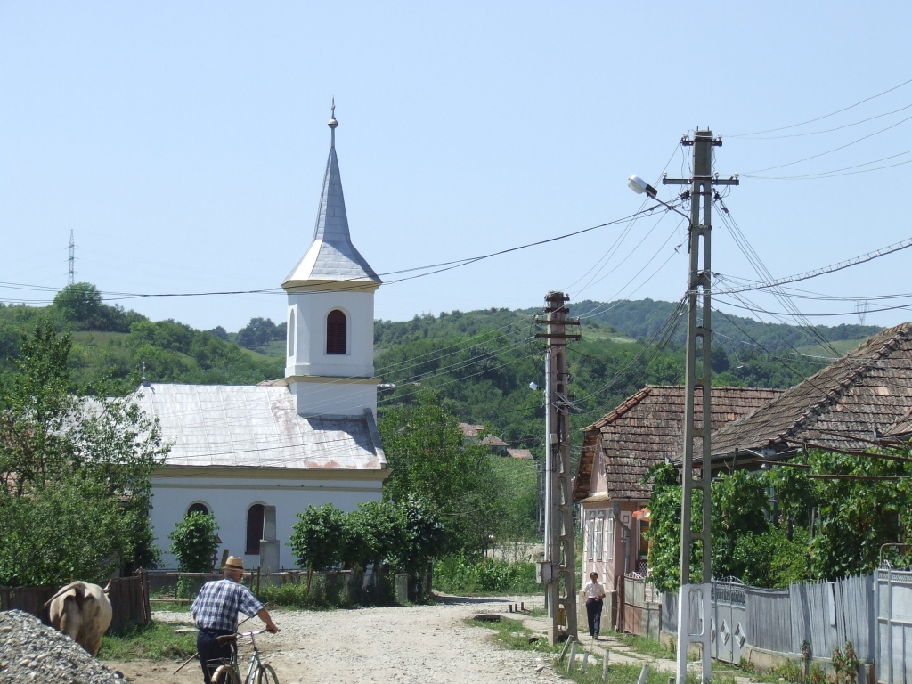 Church in Ţaga commune, Cluj County, Romania